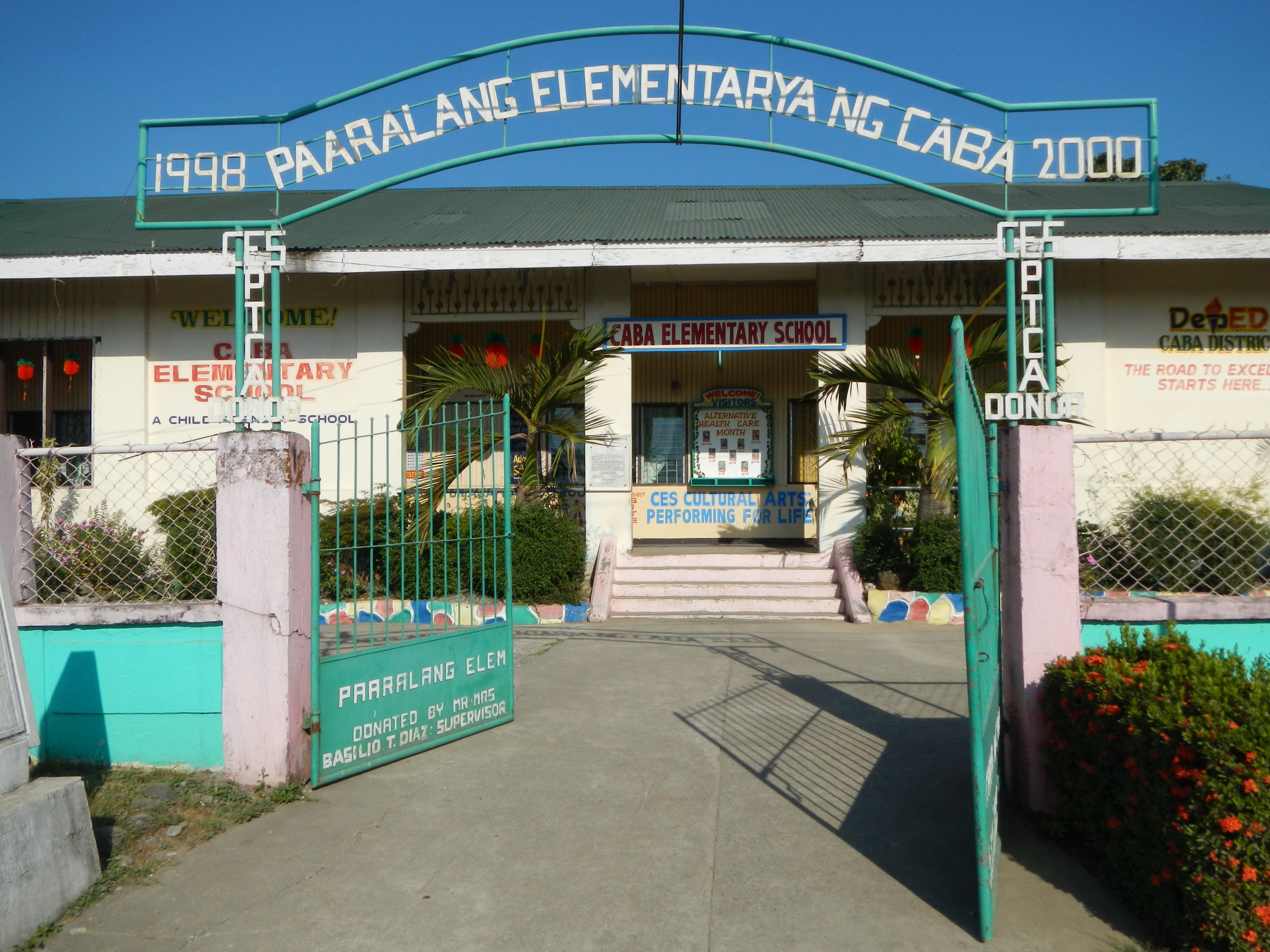 Caba, La Union[1]